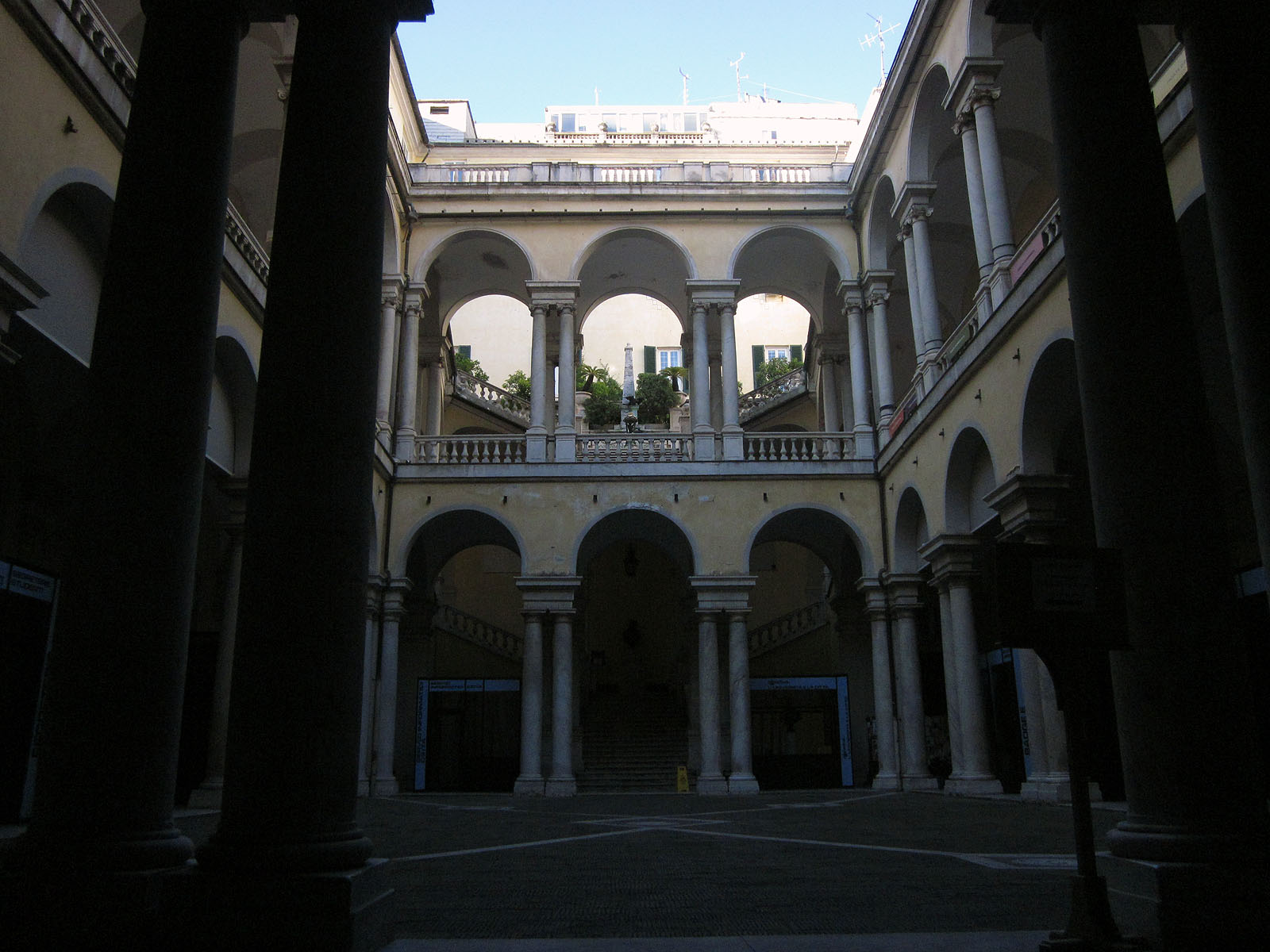 Via Balbi is UNESCO's Wrold Heritage site. This is local atheneum of Università degli Studi di Genova (Palazzo Balbi-Senarega), Italy.